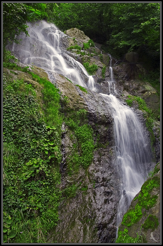 Waterfall in Sarpi (Adjara region. Georgia).